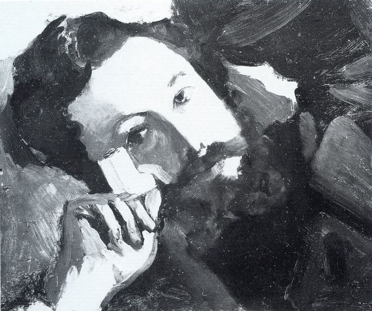 Portrait of Alfred Sisley by Bazille, formerly at Wildenstein Galleries, Paris, destroyed during World War II.